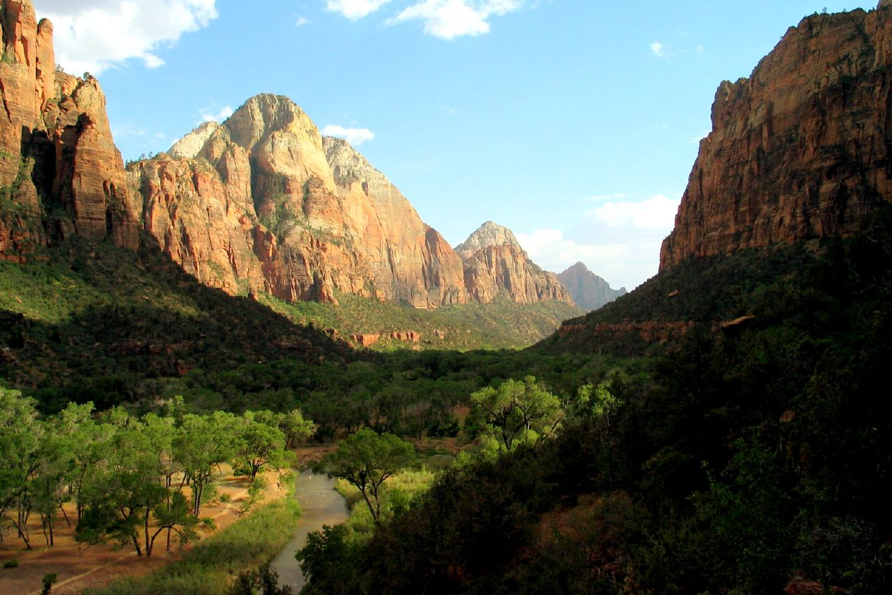 Zion National Park in Utah